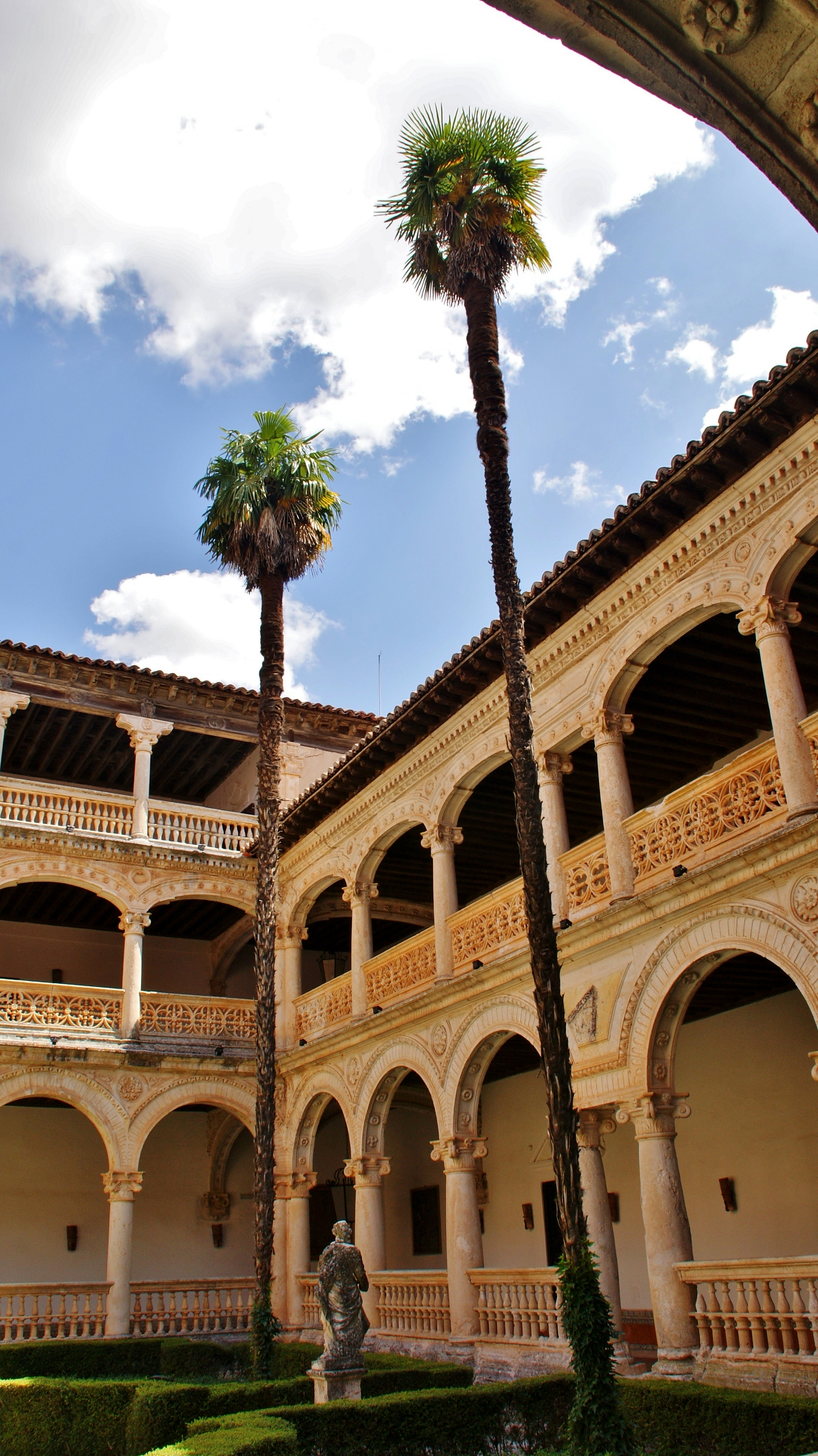 Monasterio de San Bartolomé, fue donde nació la Orden de San Jerónimo (O.S.H.). Edificado en 1474 sobre una ermita ya existente dedicada a San Bartolomé, que databa de 1330. Fue la casa madre de la Orden de San Jerónimo y fundado por Pedro Fernández Pecha y Fernando Yáñez de Figueroa. Lupiana, Guadalajara, Comunidad Autónoma de Castilla-La Mancha